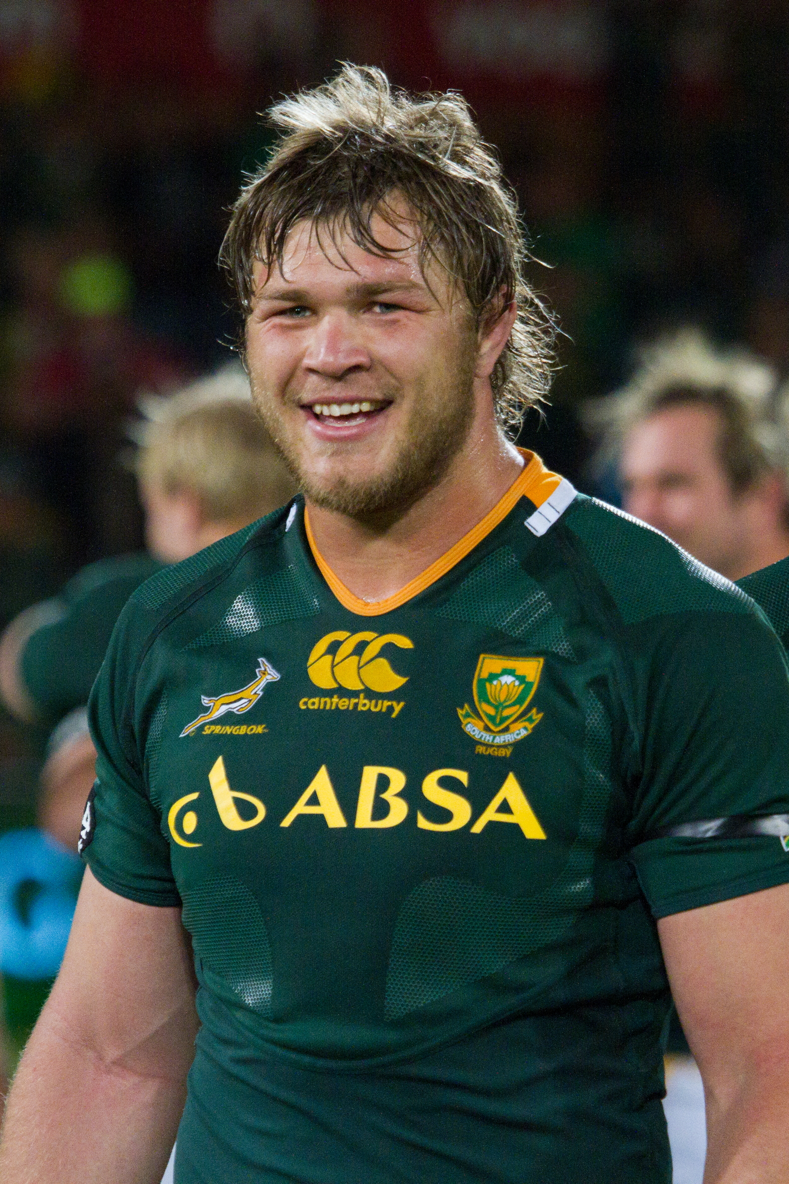 South Africa international rugby union footballer Duane Vermeulen after the game against Australia in The Rugby Championship at Loftus Versfeld Stadium in Pretoria.